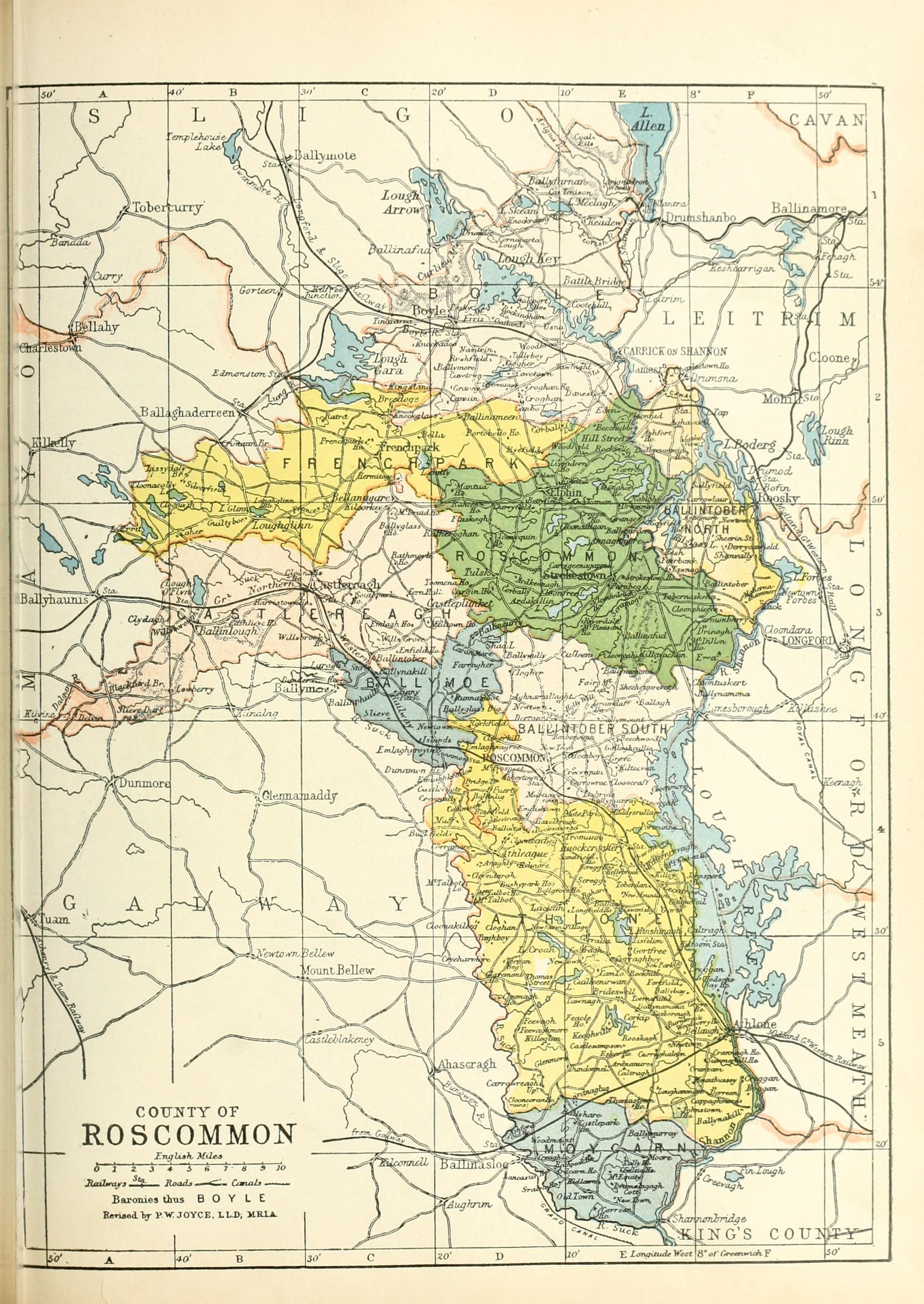 Map of the baronies of County Roscommon in Ireland; taken from Atlas and cyclopedia of Ireland, p.252